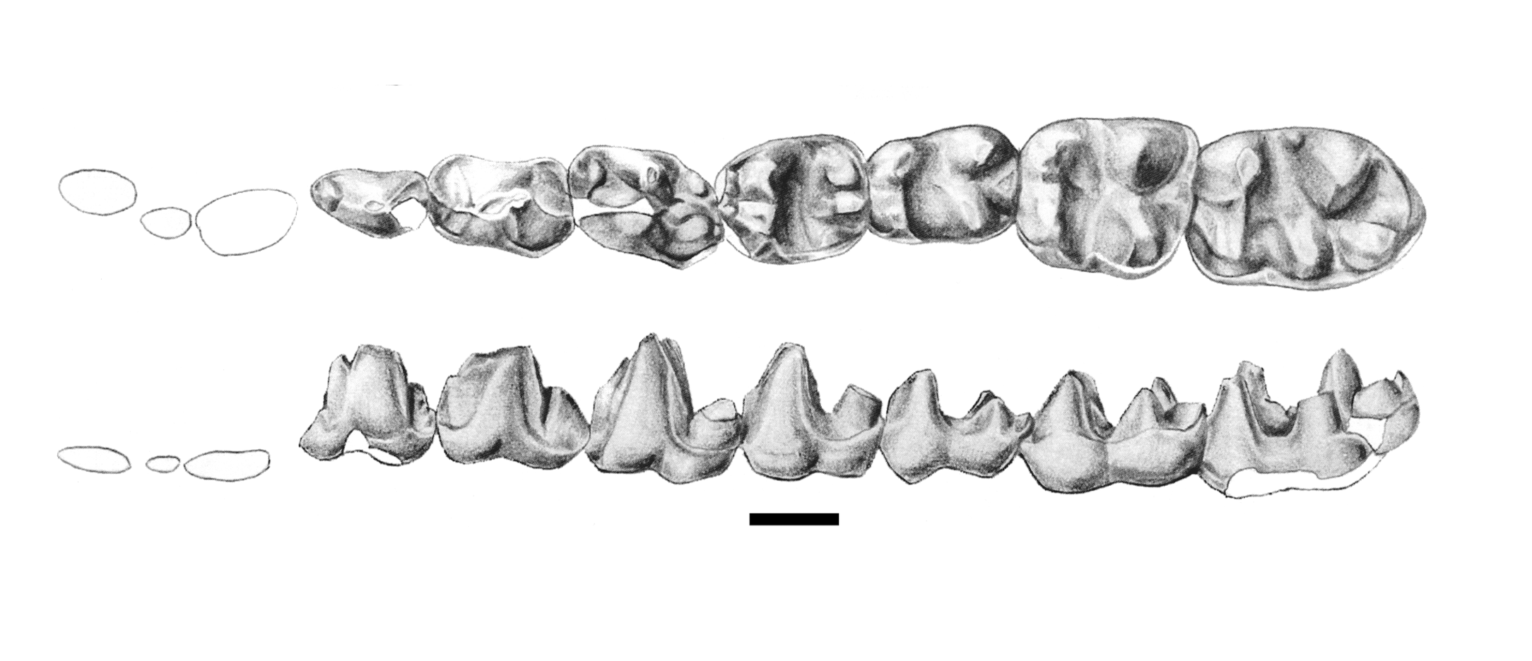 Left p1-m3 of Obergfellia occidentalis (H-GSP 1981) in occlusal view (top), and labial view (below, M1 inverted from right side). Scale bar is 1 cm in length